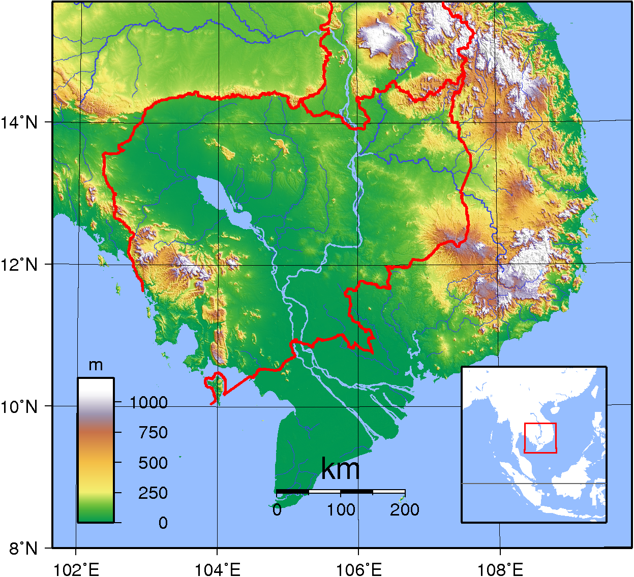 Topographic map of Cambodia. Created with GMT from publicly released GLOBE data.[1]